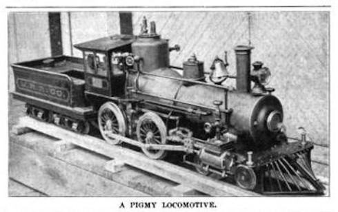 'A Pigmy Locomotive' - What is claimed to be the smallest locomotive ever made for drawing passenger cars has been made for the Miniature Railroad company by Thomas E. McGarigle of Niagara Falls. This steam railroad was operated at the Trans-Mississippi Exposition in Omaha, Neb., and, in all, six locomotives are to be built for the company under the present contract.